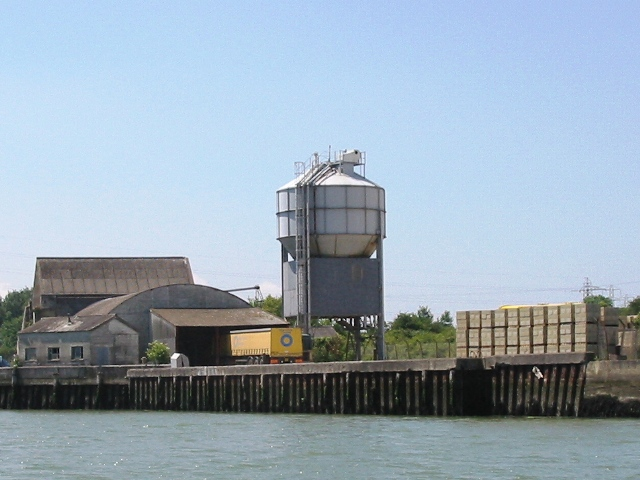 West Medina Cement Mill near to Parkhurst, Isle of Wight, England. Originally a cement mill from 1852 until its closure in 1932 on the Western bank of the River Medina. Then used as a depot for cement "imported" from the mainland but currently under development, the first stage to include an Industrial Park on part of the site.